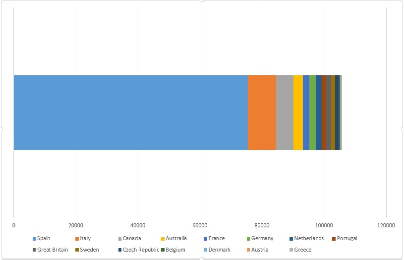 Estimated Nuber of immigrants infected with Trypanosome cruzi in European countries.[1]